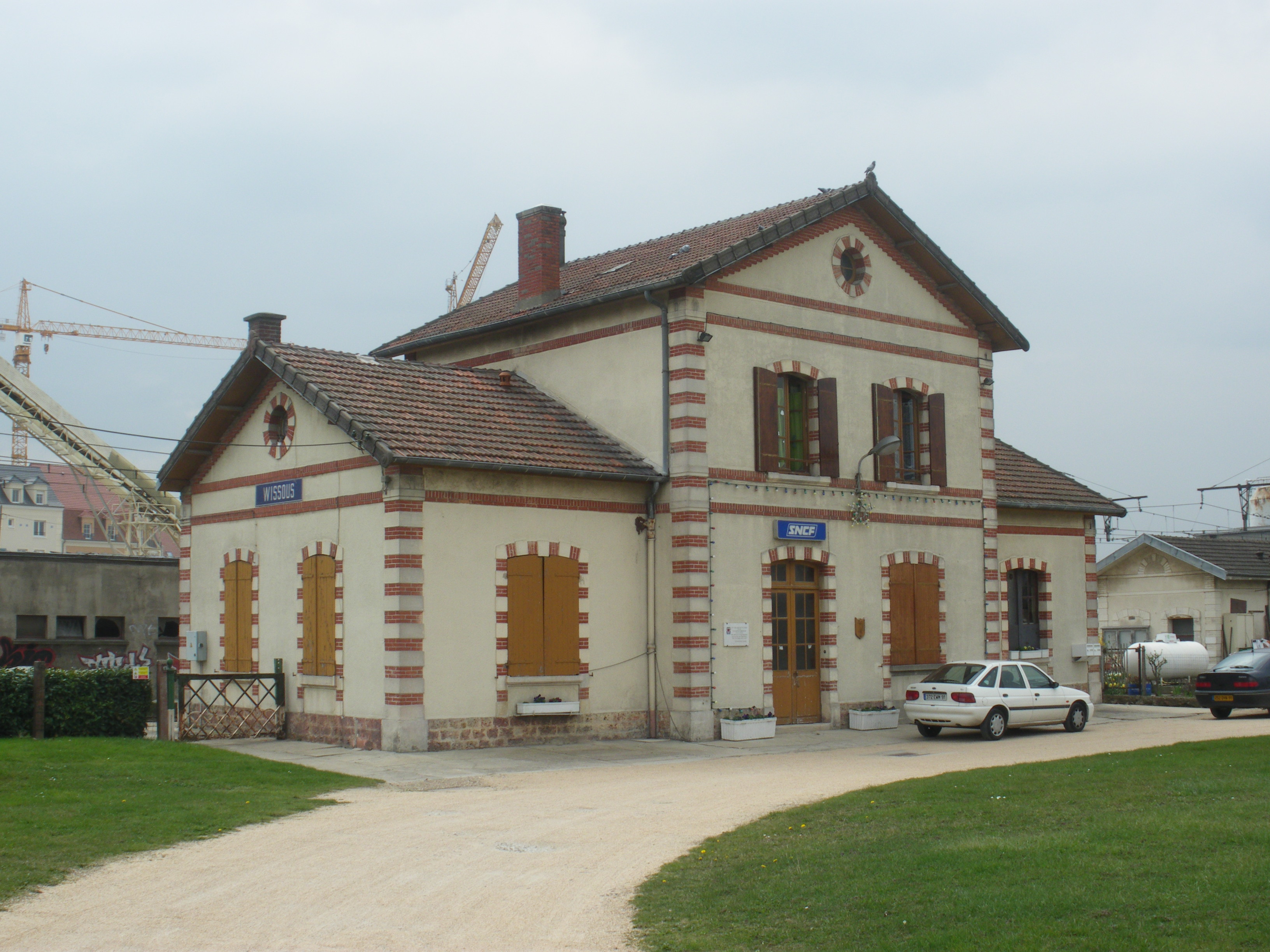 SNCF Station in Wissous, Essone, France